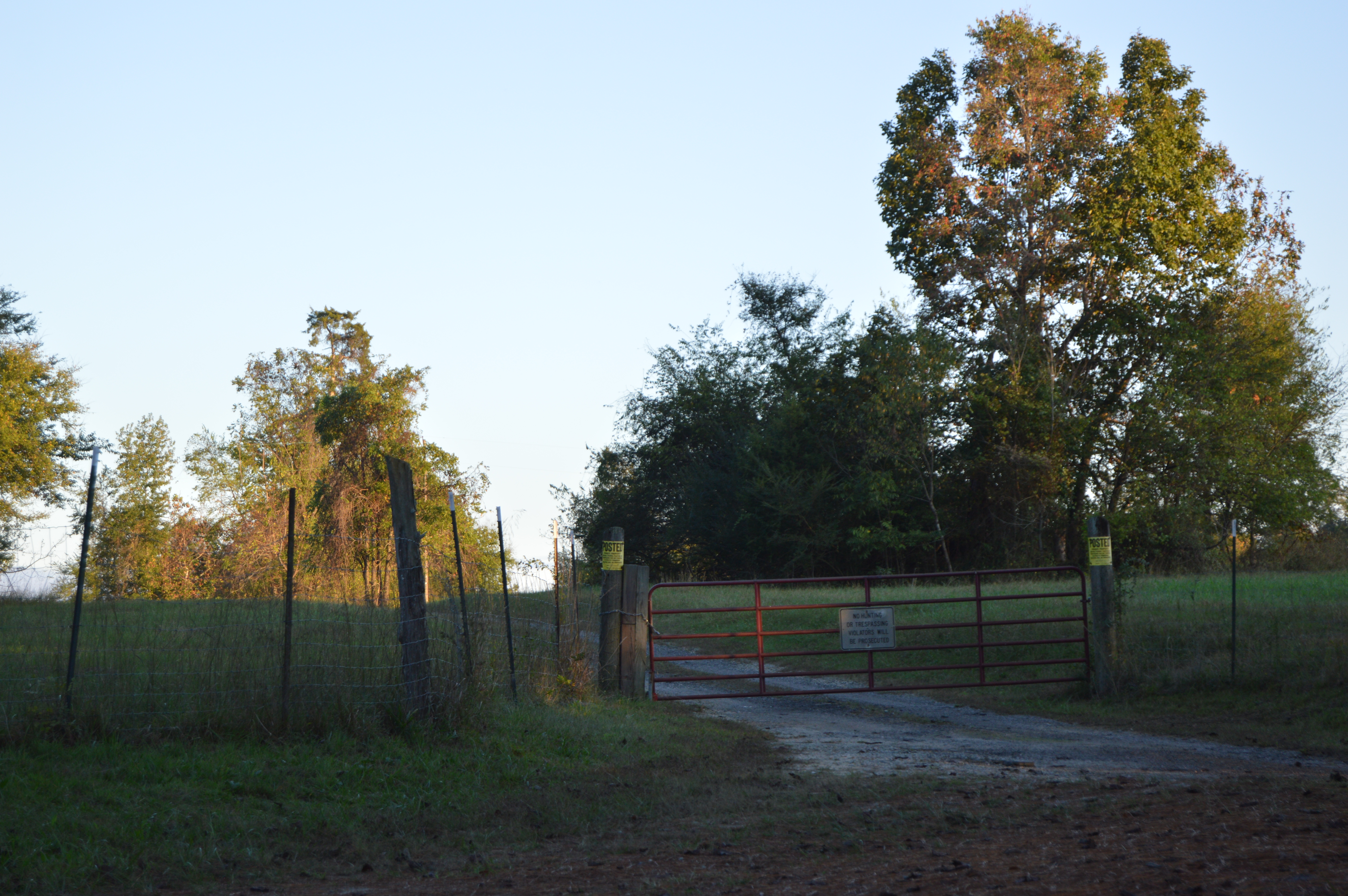 Entrance to the driveway for the Mountain Hall property, located on Mountain Hall Road northeast of Crewe in Nottoway County, Virginia, United States. The property is listed on the National Register of Historic Places.